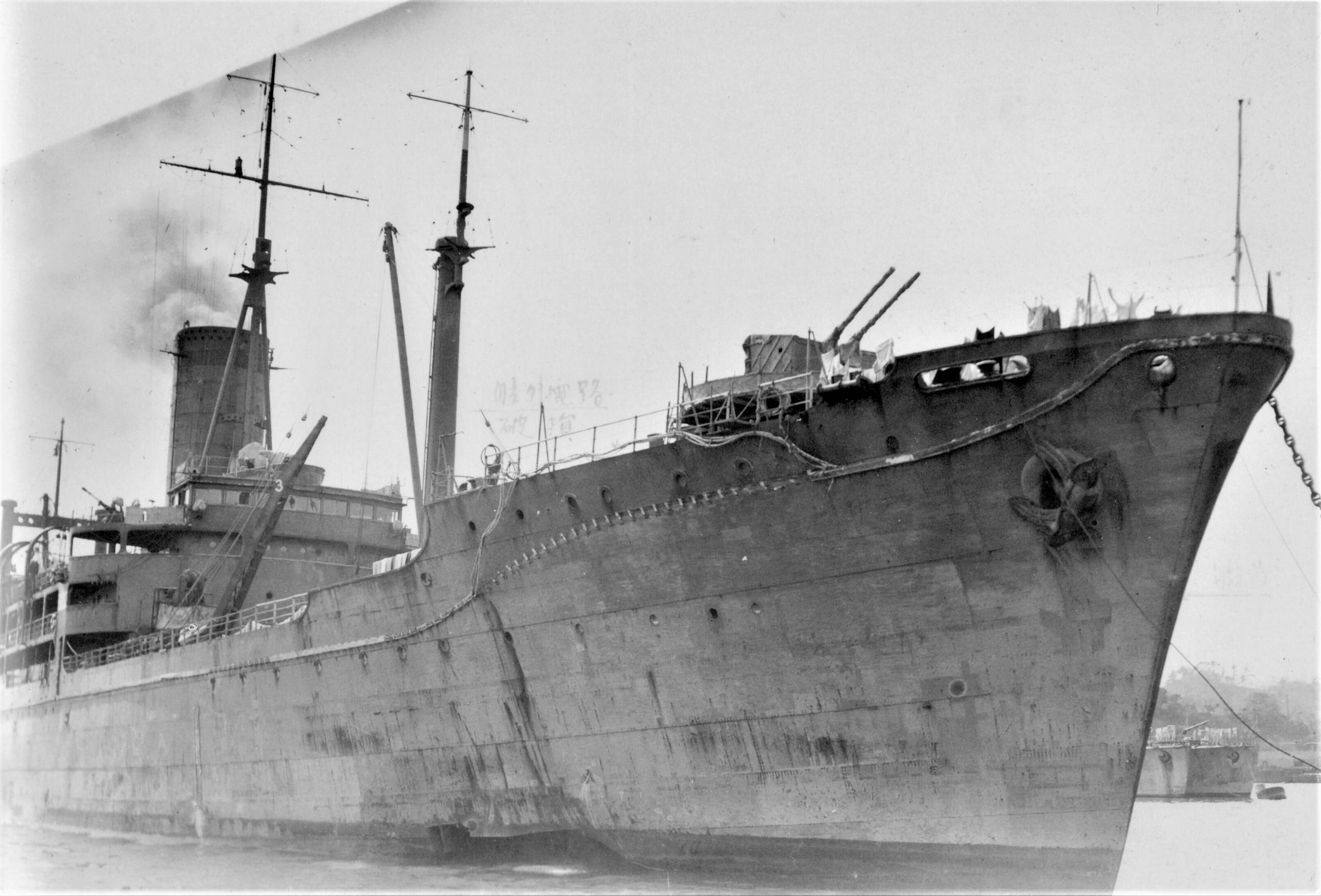 Japanese Supply Ship "Irako" at Yokosuka Port.